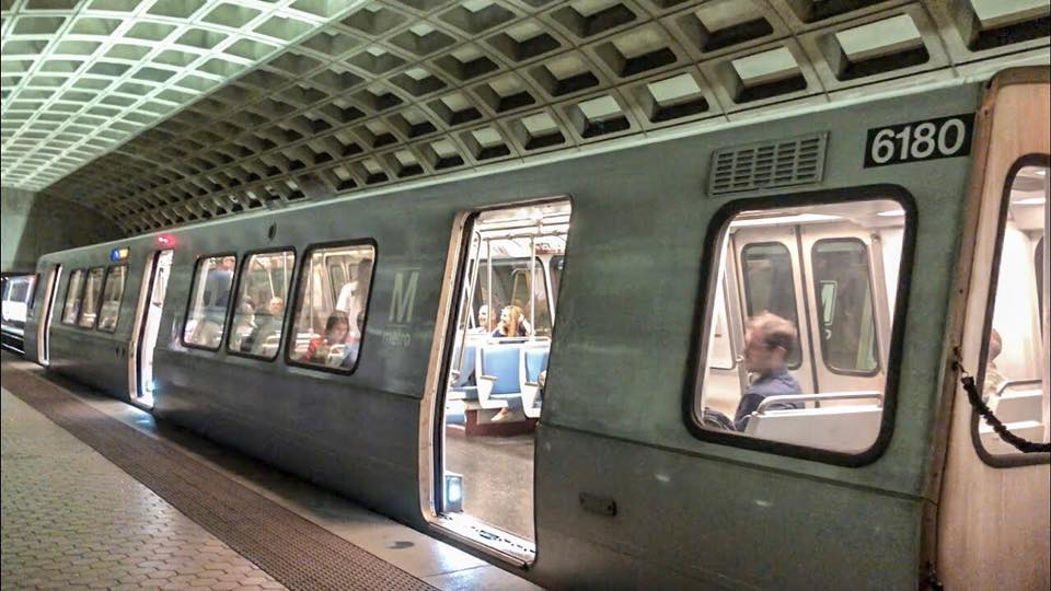 WMATA Alstom 6180 on the Blue Line at Pentagon City. This car is wrapped in the new Vinyl wrap to resemble the 7000 series and is more easier to clean, better for the environment and cheaper than a new paint job.